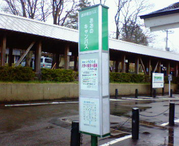 Iwate Kenpoku Bus Ono Campus Bus Stop in Hirono Town, Iwate Prefecture, Japan